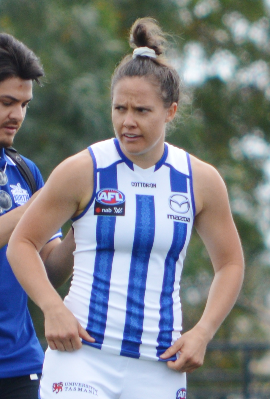 Emma Kearney with North Melbourne during an AFLW practice match against Melbourne at Casey Fields on 19 January 2019.